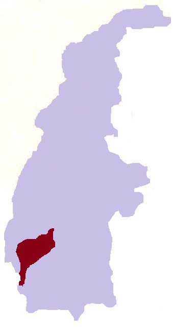 Mingin Township roughly highlighted in Sagaing Region, Burma